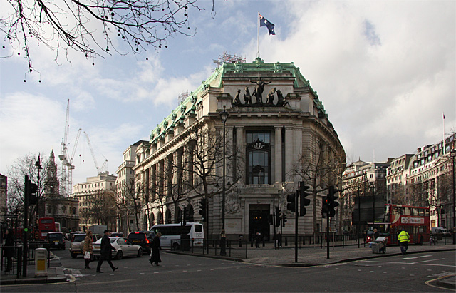 Australia House Home of the Australian High Commission, it is located at the eastern end of the loop formed by Aldwych and Strand. Visible on the left is St. Mary-Le-Strand, which stands in the middle of the road.